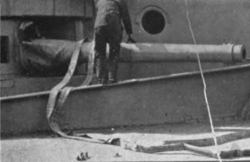 Photograph showing Mk XII 6-inch gun mounted in a casemate on HMS Warspite, after the Battle of Jutland. This is a clip from File:HMS Warspite Jutland damage shellhole boys mess deck.jpg